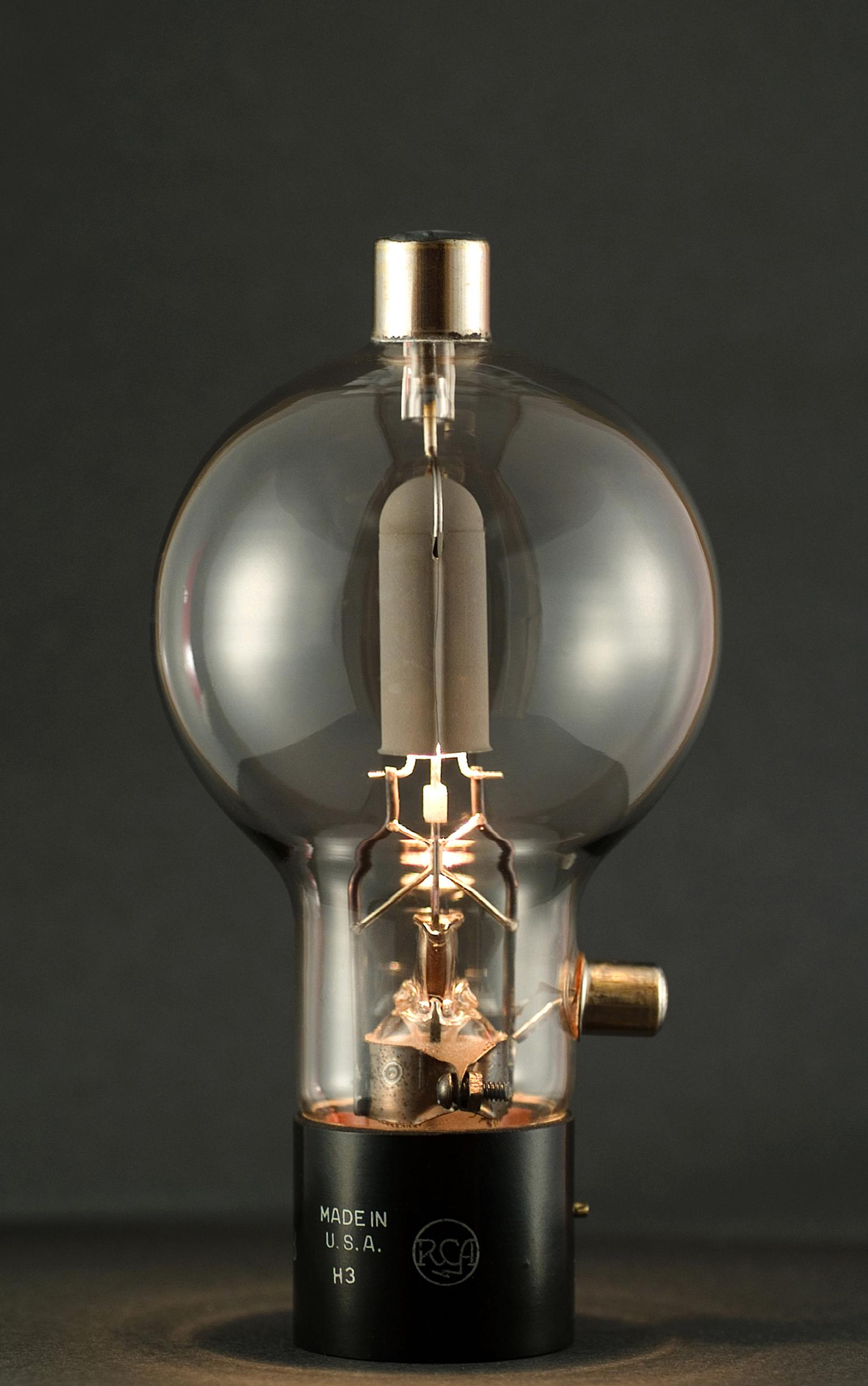 RCA ’808’ Power Vacuum Tube